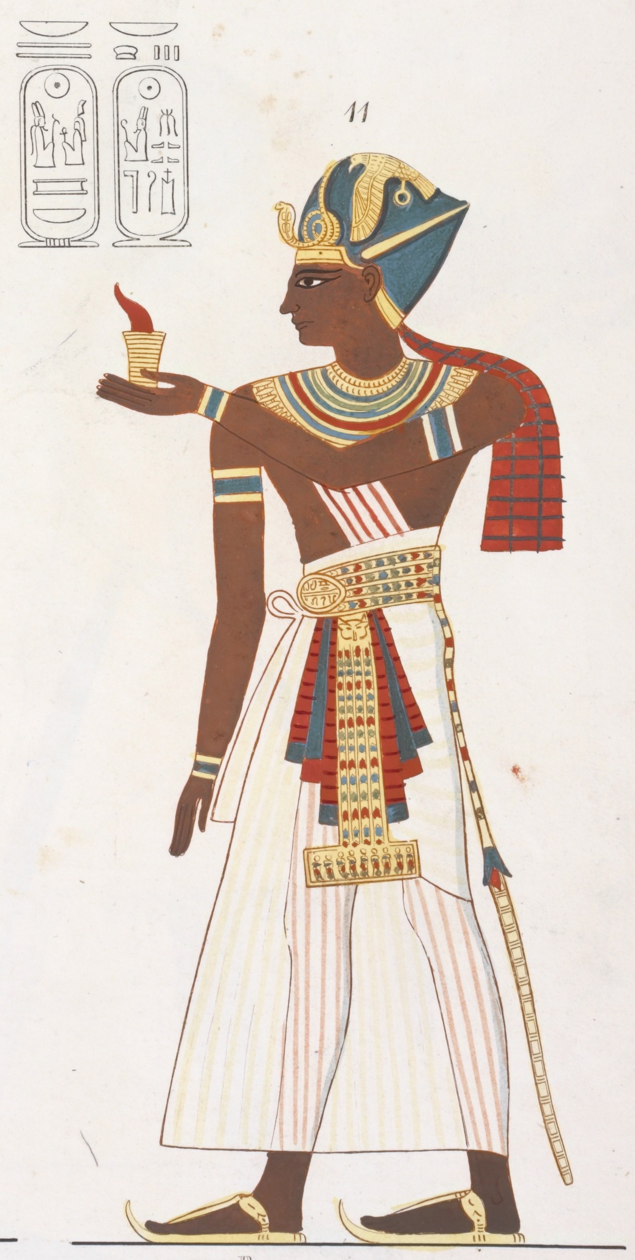 Drawing by Champollion of a depiction of Ramesses VI from his tomb in the Valley of the Kings.